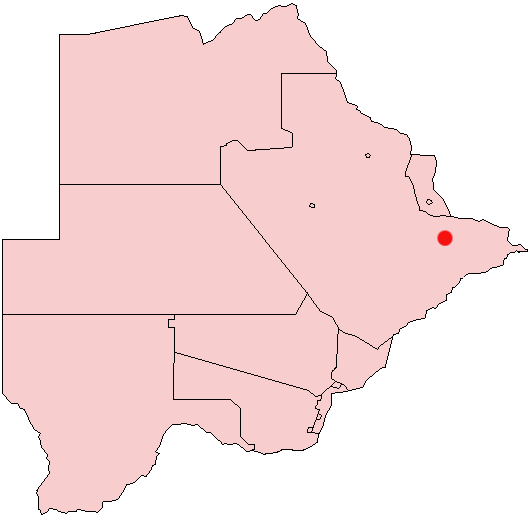 Selibe Phikwe, Botswana Location Map; created with the GIMP. Made by User:Acntx.